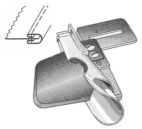 Folder for tape sewing